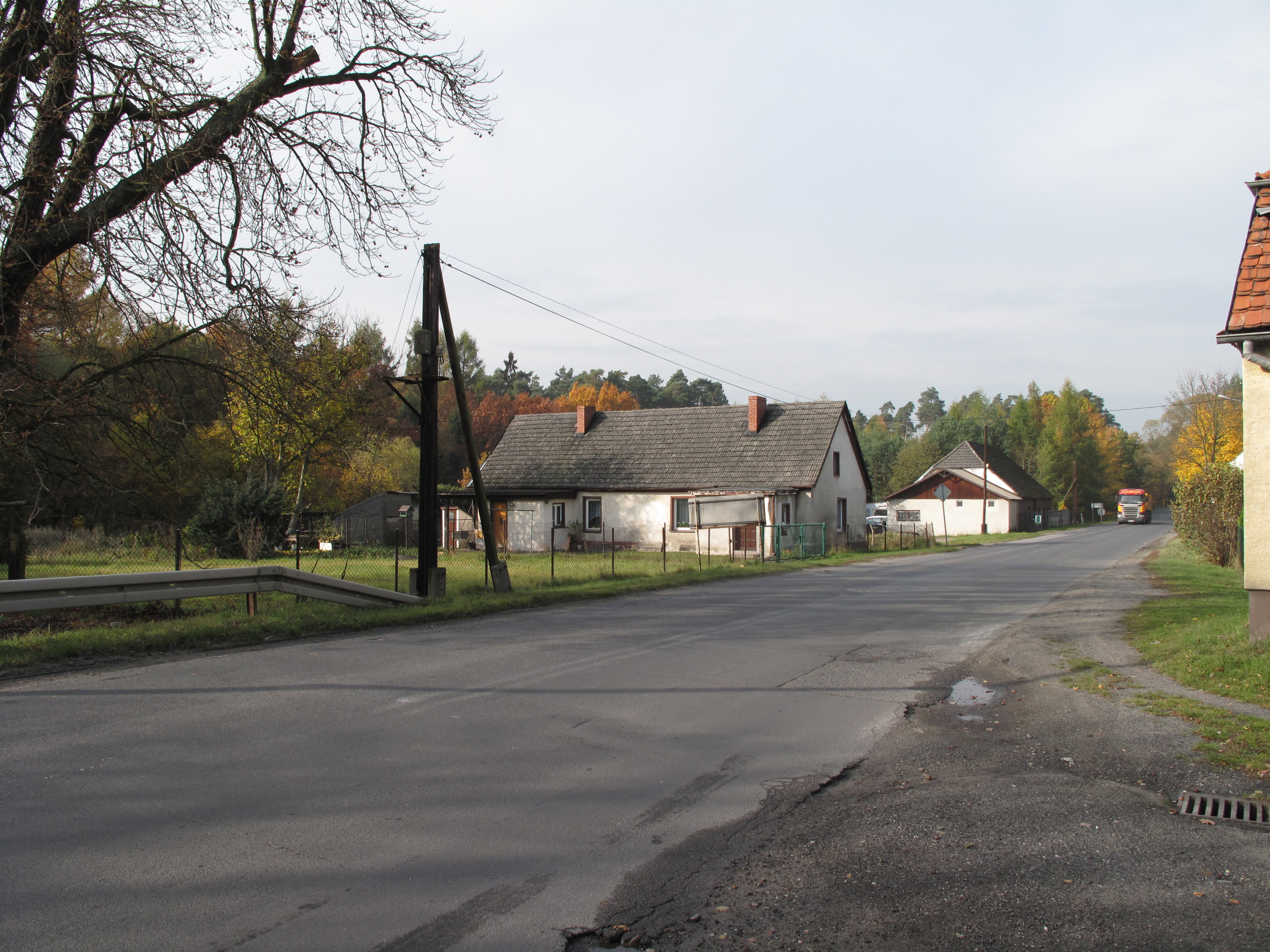 Kotlarnia, Kędzierzyn-Koźle County, Poland.